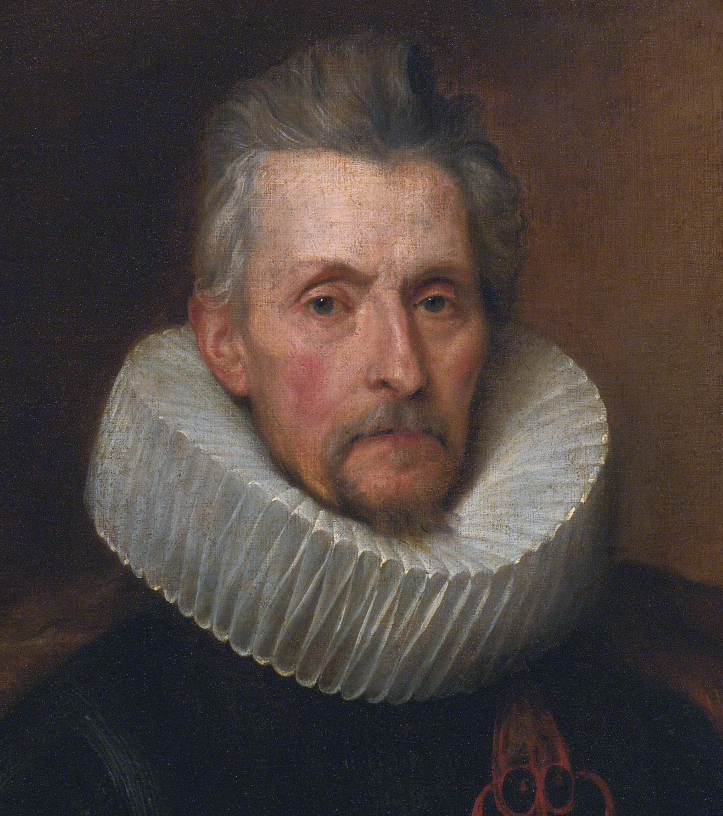 Ferdinand de Boischott (1571-1649), Baron Zaventem